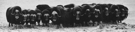 Title: Nunivak Musk Oxen in Defensive Formation Alternative Title: (none) Creator: Adams Source: FWS-5086 Publisher: U.S. Fish and Wildlife Service Contributor: ASSISTANT REGIONAL DIRECTOR-EXTERNAL AFFAIRS Language: EN - ENGLISH Rights: (public domain) Audience: (general)